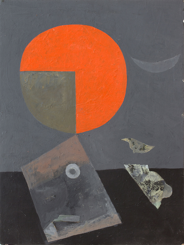 Happiness 3